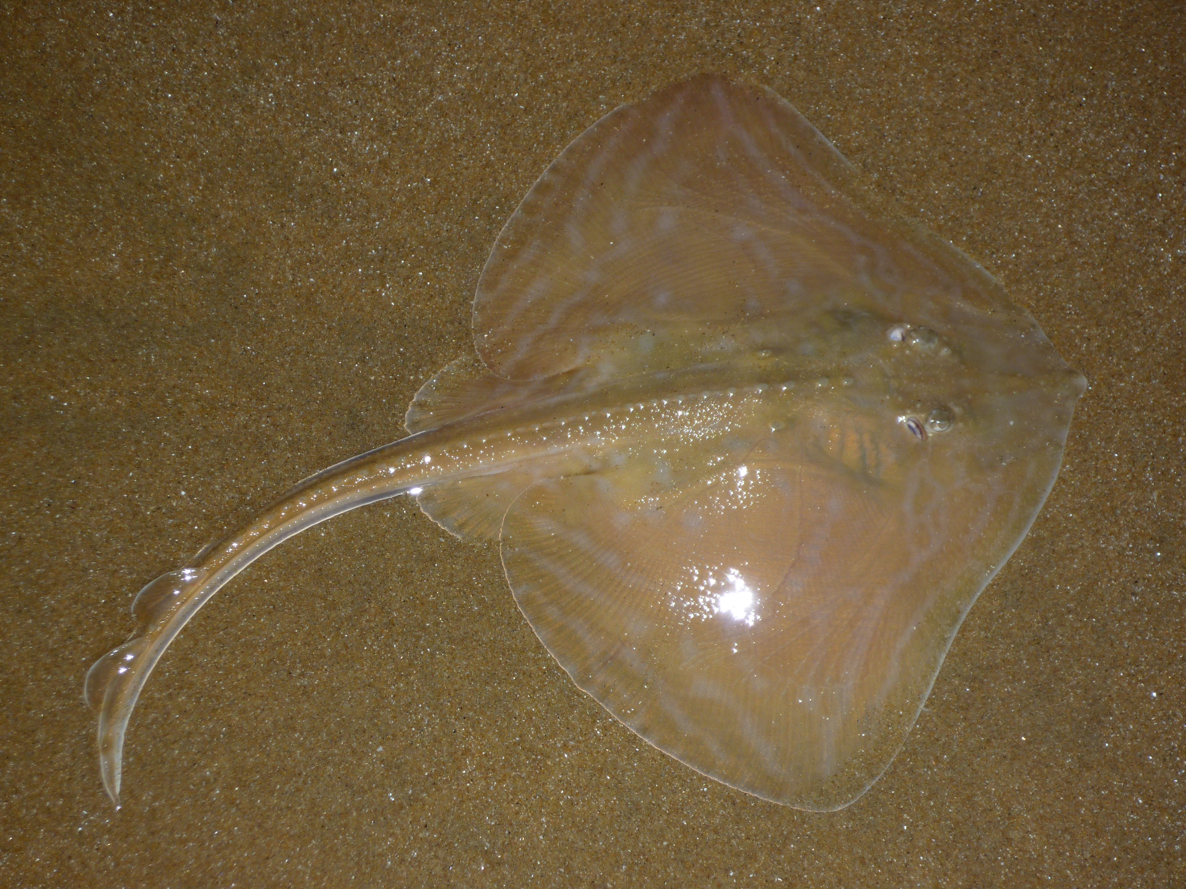 Raja microocellata - 29 cm